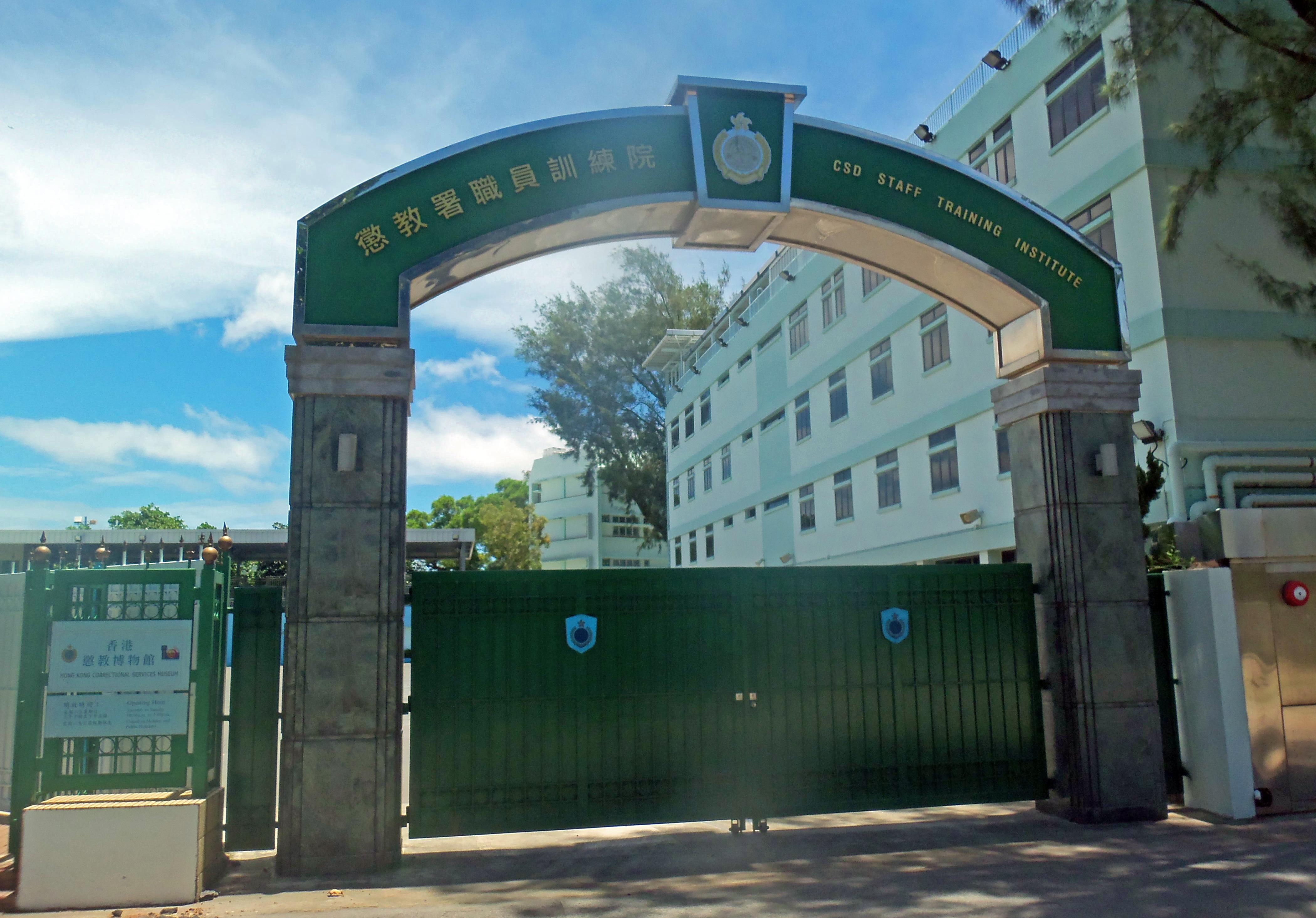 Gate of Hong Kong Correctional Services Staff Training Institute, where new correctional officers are trained, just north of Stanley Prison at the end of Tung Tau Wan Road outside Stanley